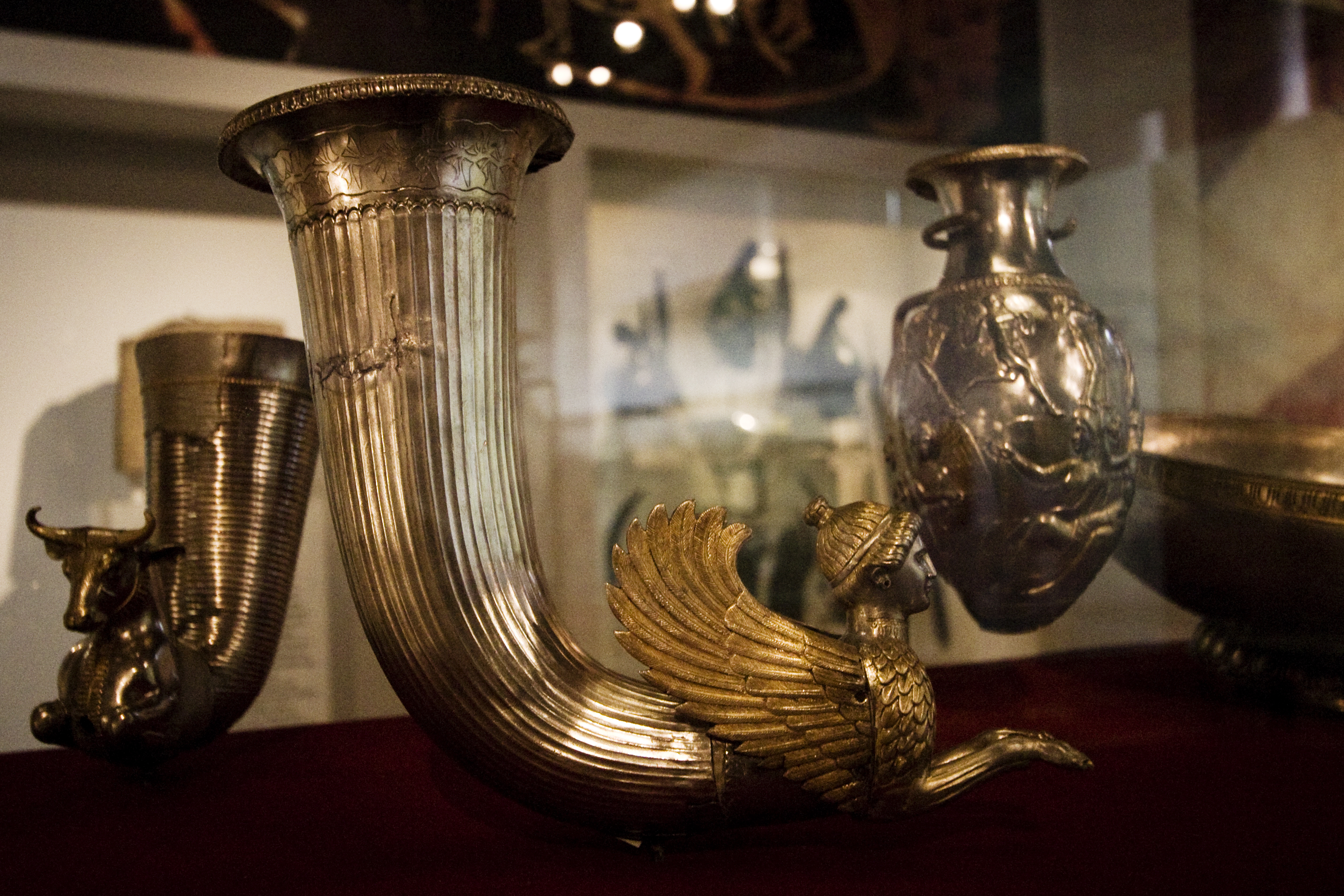 Part of the Borovo Treasure, a royal ritual set made from silver and gilt bearing the name of the Thracian King Kotys I (383-359BC).